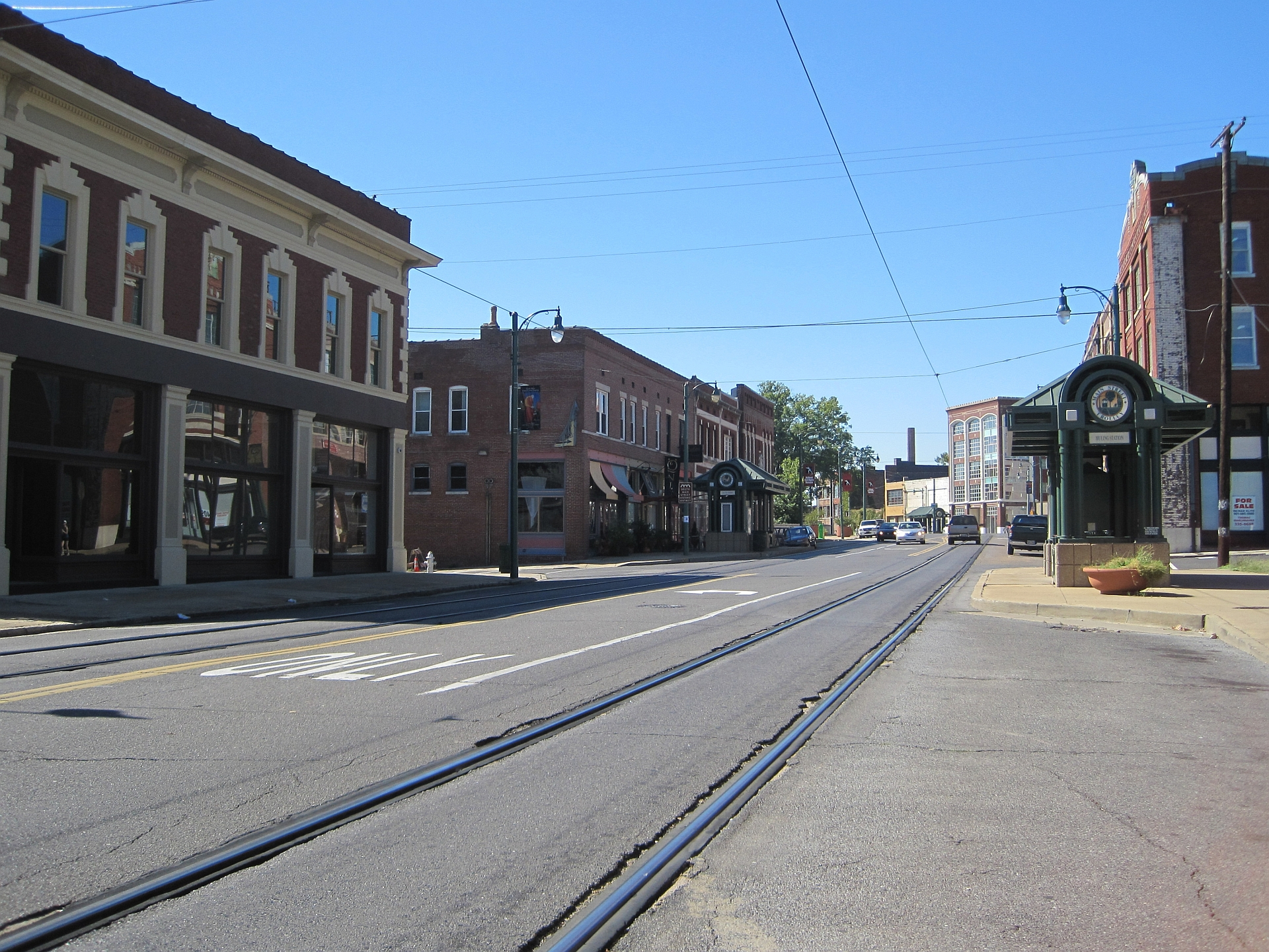 South Main Arts District, Memphis, Tennessee. Huling Station